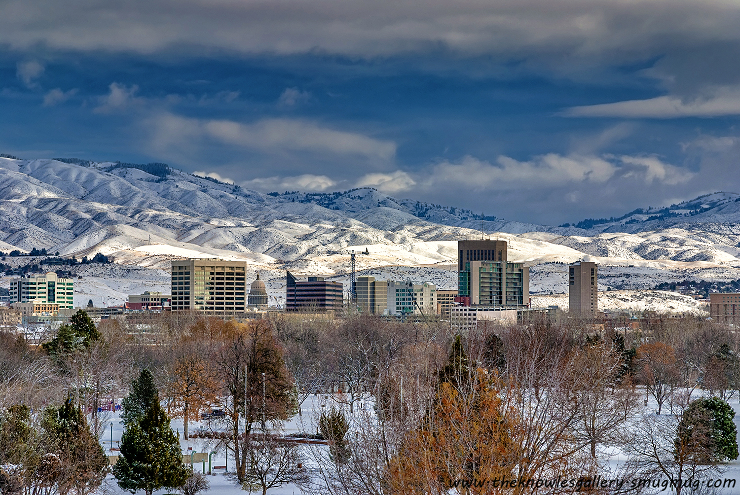 Snow covered town of Boise, Idaho on a cold winter afternoon.